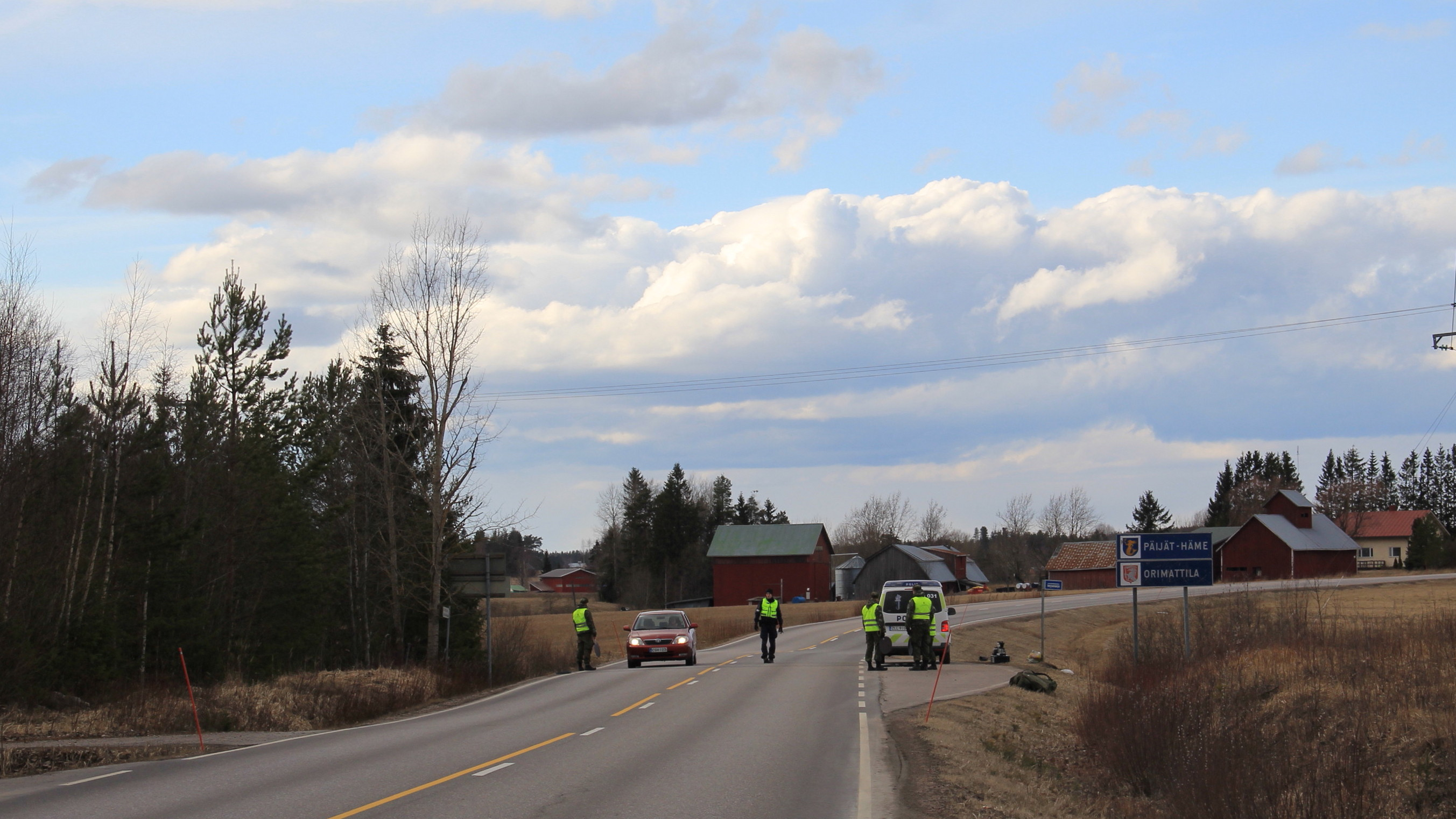 Coronavirus pandemic in Finland, checkpoint between Uusimaa and Päijänne Tavastia regions on Finnish national road 167, photon taken from Myrskylä towards Orimattila, Finnish national road 167, Finland. - Police is patrolling, conscripts and female volunteers in armed service are assisting by stopping the traffic.